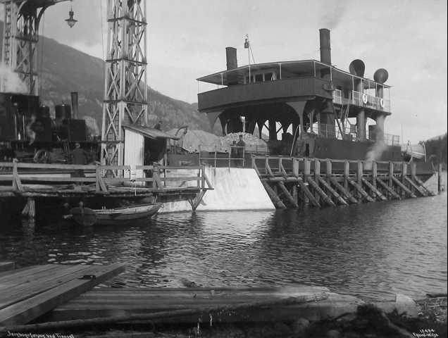 Norwegian railway ferry DF Rjukanfos built in 1909, loading supplies at Tinnoset, Norway.